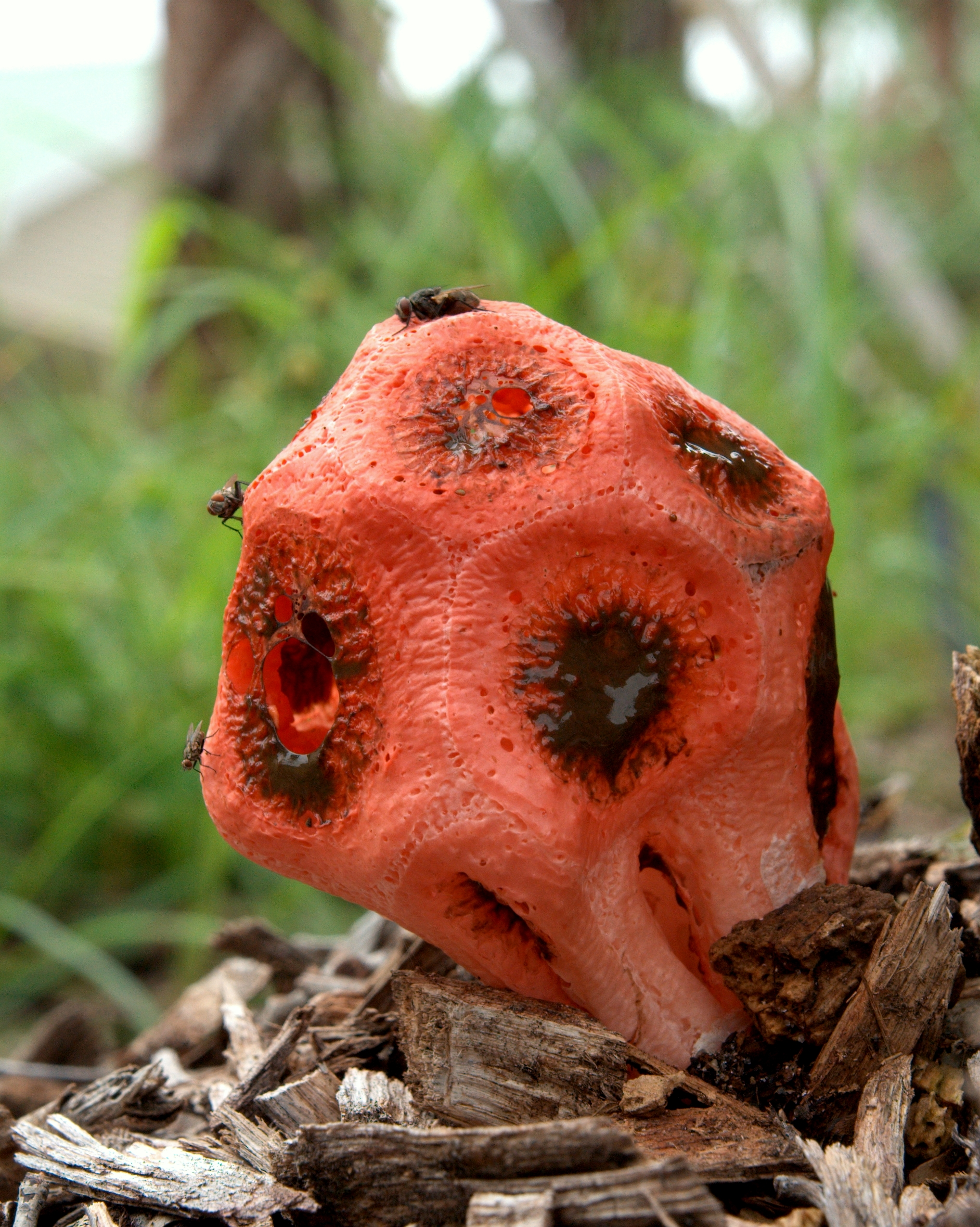 Clathrus crispus (Phallaceae) growing in North Fr. Myers, Florida.